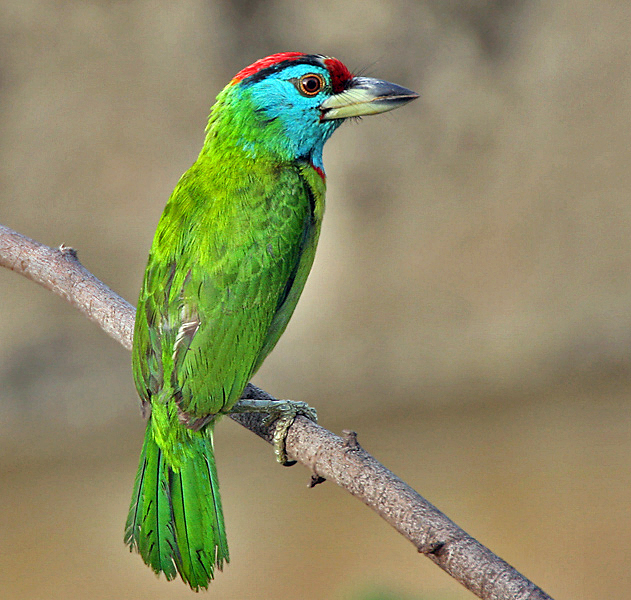 Blue-throated Barbet Megalaima asiatica in Kolkata, West Bengal, India.